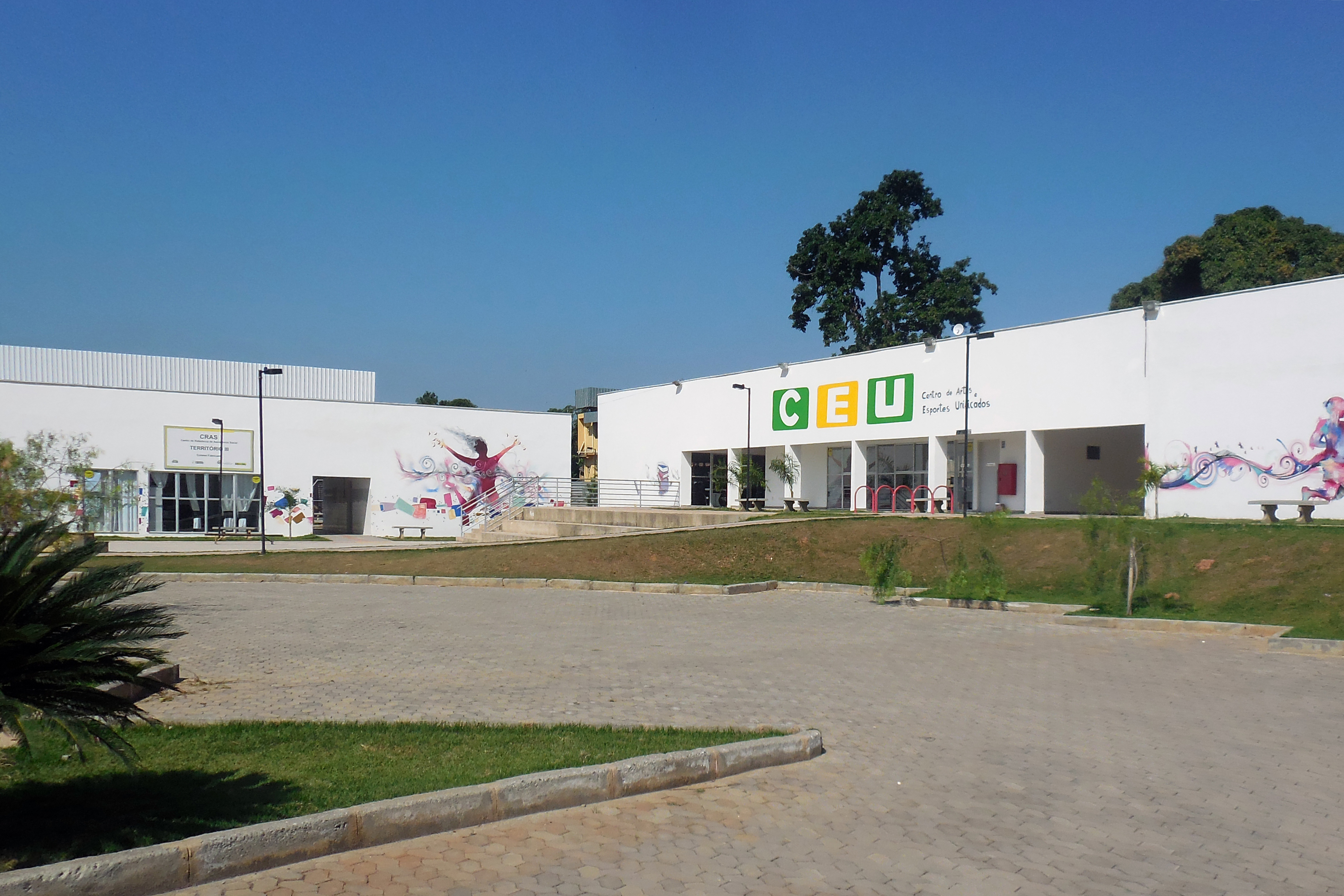 Front of the Centro de Artes e Esportes Unificados (center of arts and sports unified), in Coronel Fabriciano, Minas Gerais, Brazil.